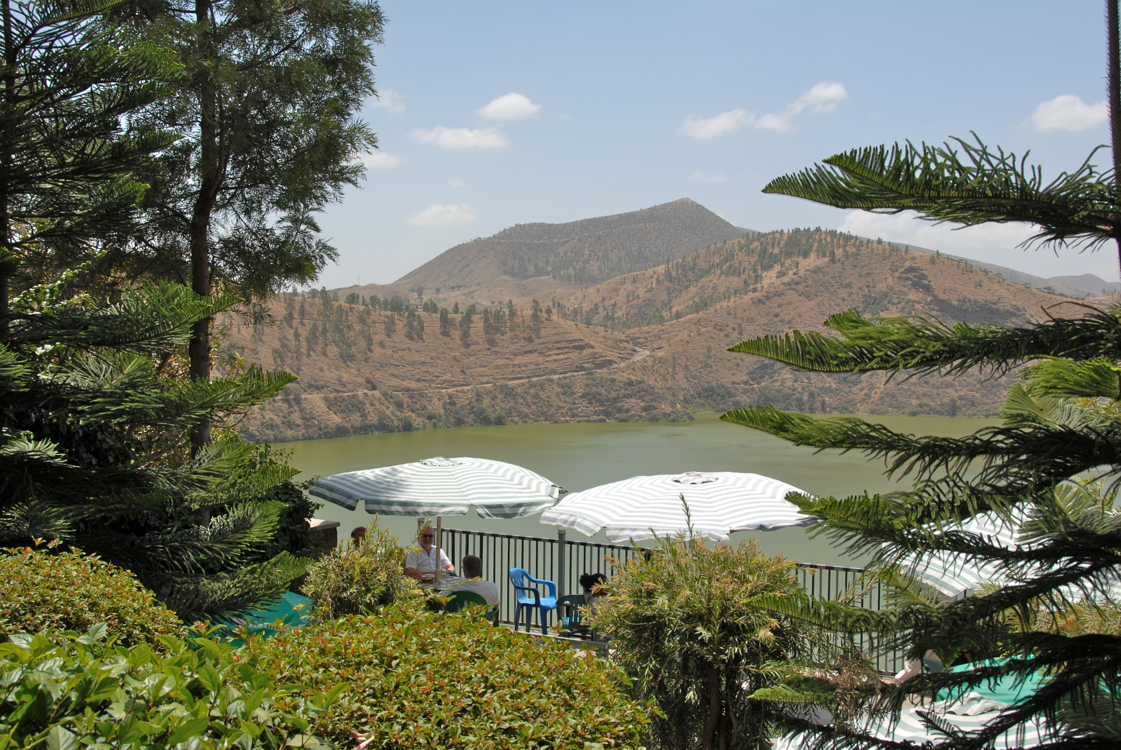 A view of the mountainous town of Debre Zeyit (or 'Mount of Olives'} in Central Ethiopia. Western tourists occasionally visit this panoramic and beautiful place.